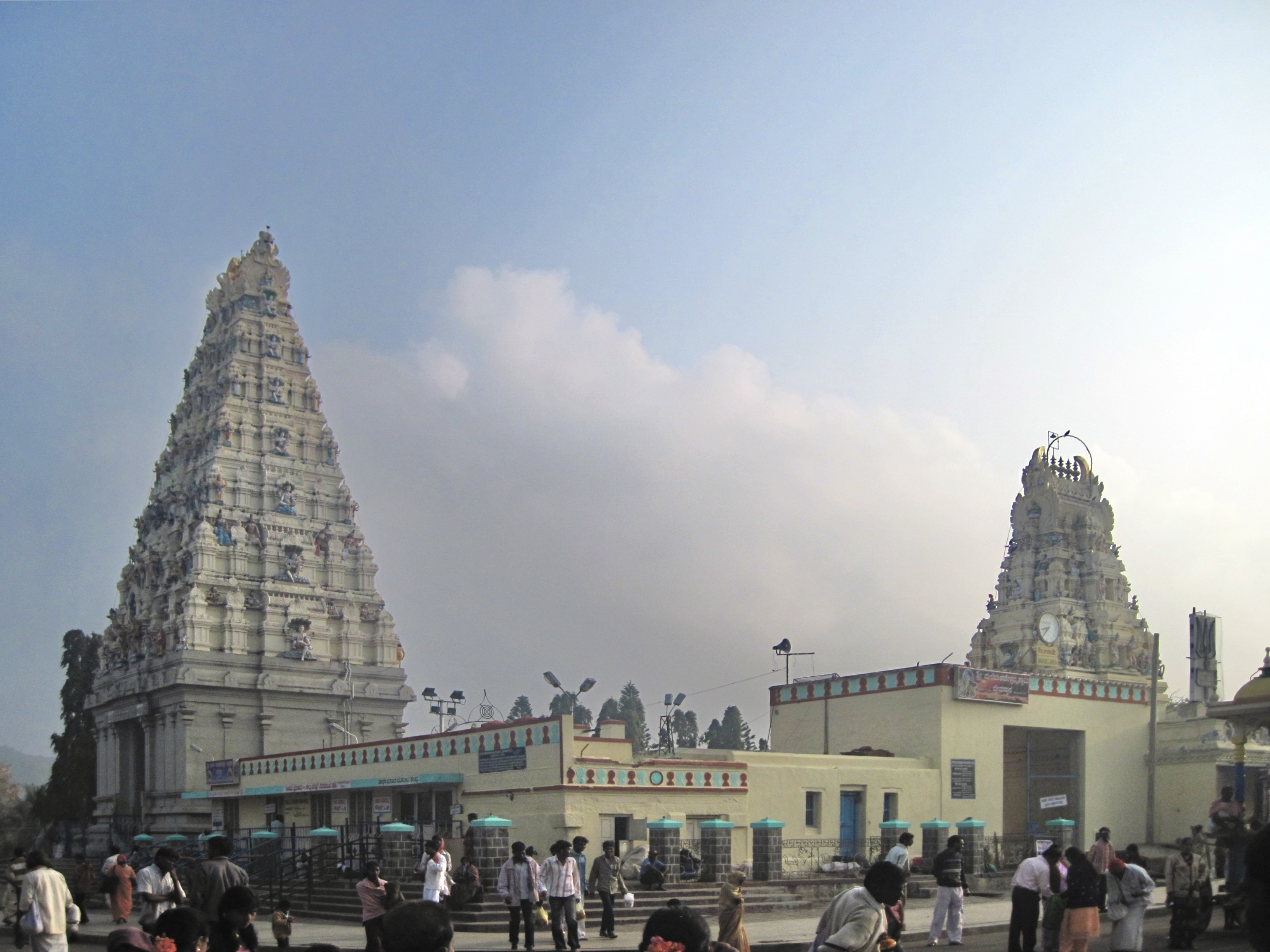 Temple at M M Hills